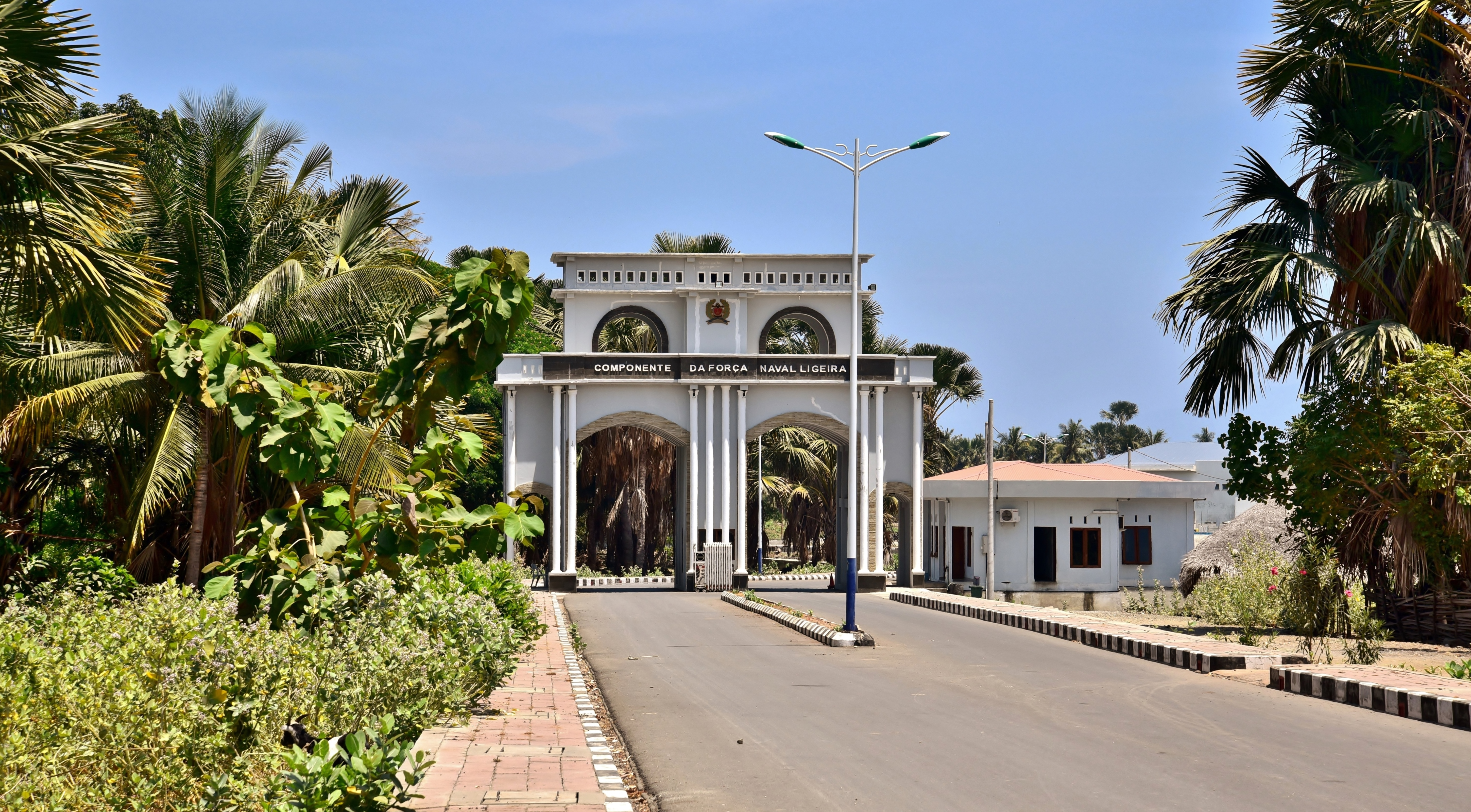 View looking towards the portal at the entrance to the Hera Naval Base, Hera (Christo Rei), East Timor